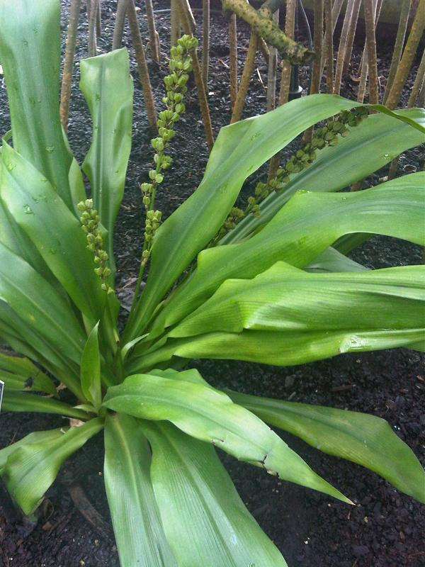 Chlorophytum macrophyllum in Kew Gardens, England.